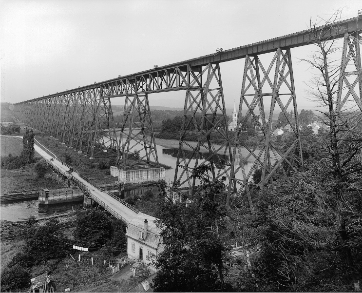 Photograph, T.C.R. viaduct at Cap Rouge, QC, 1916 (?), Wm. Notman & Son, Silver salts on glass - Gelatin dry plate process - 20 x 25 cm